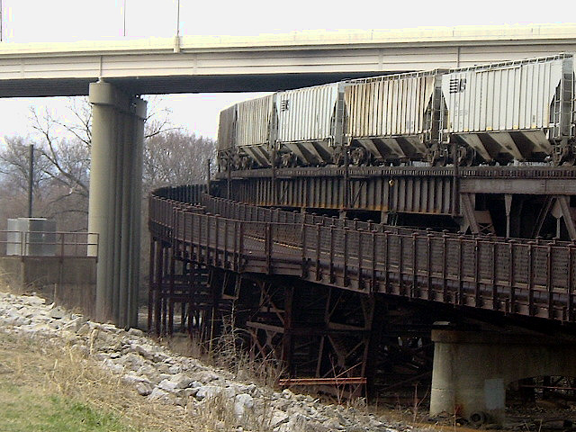 RR Bridge, LOUKY